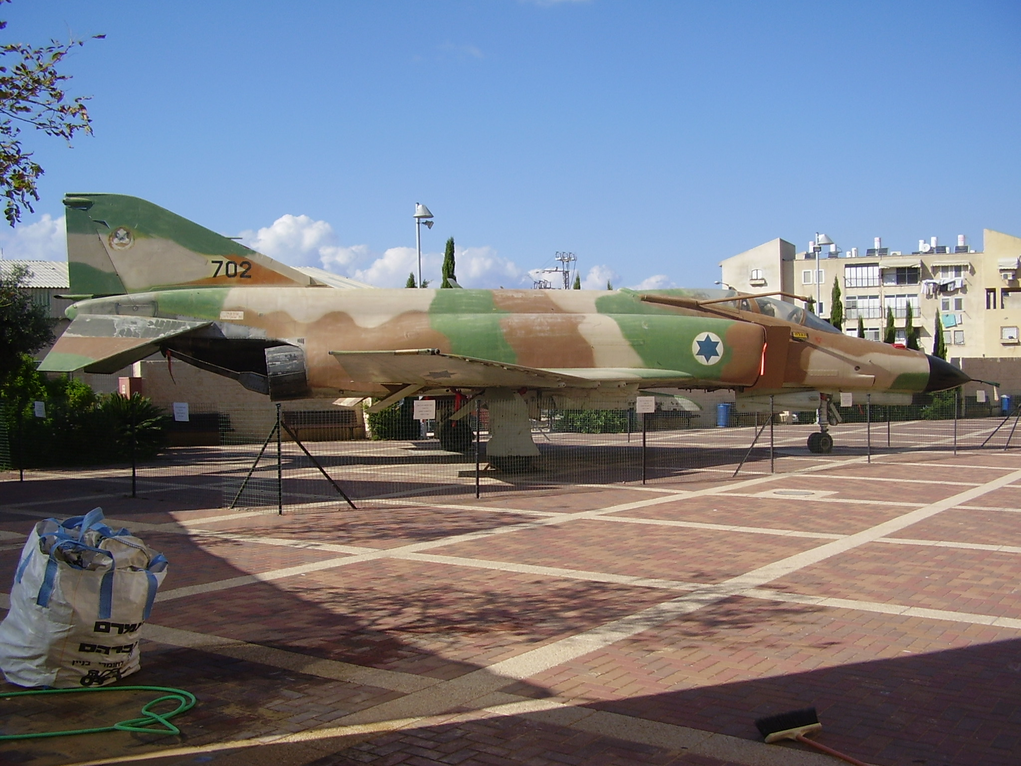 Phantom Jet in "Technoda" in Hadera